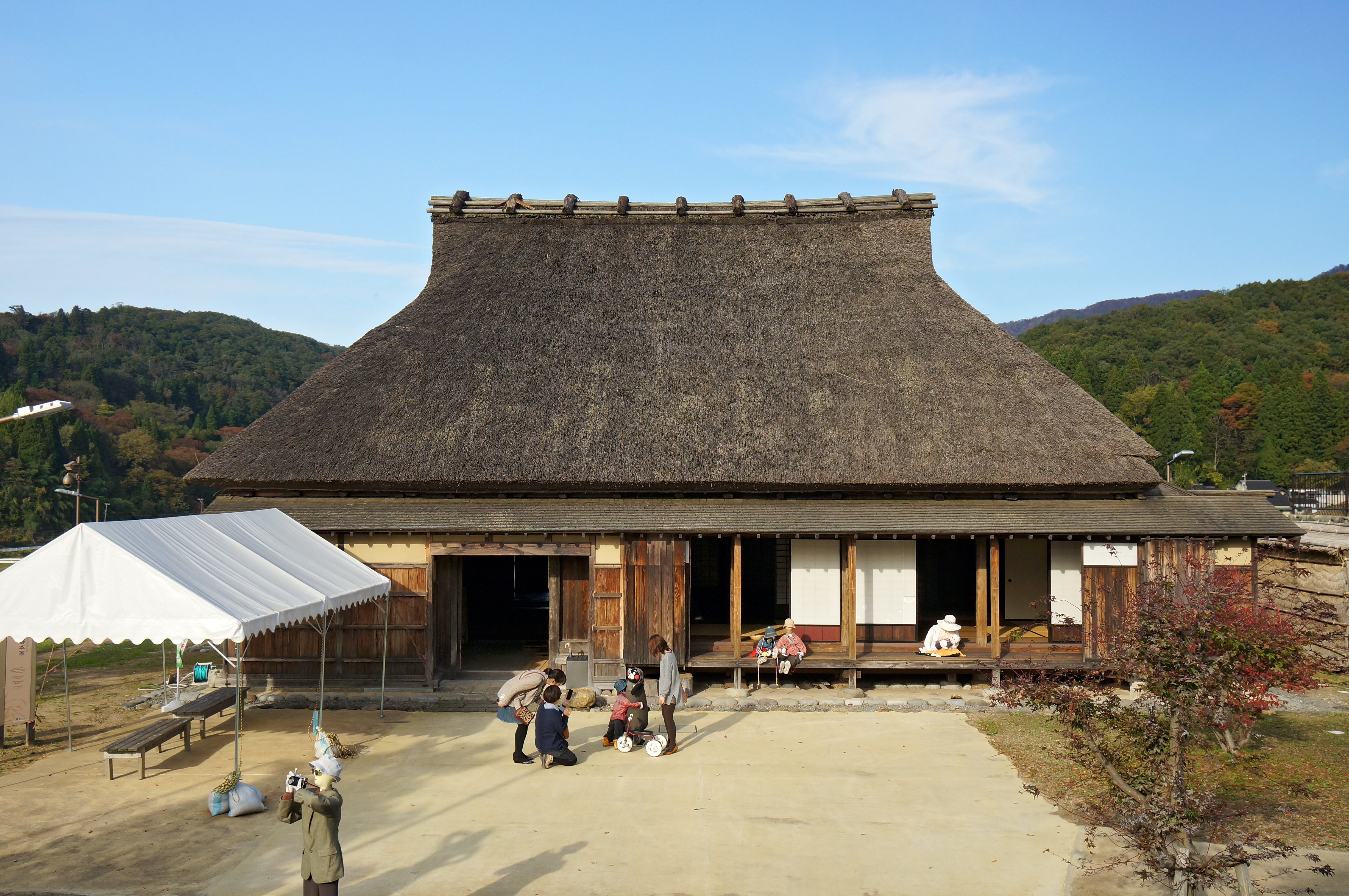 At Kanazawa Yuwaku Edomura in Kanazawa, Ishikawa prefecture, Japan.